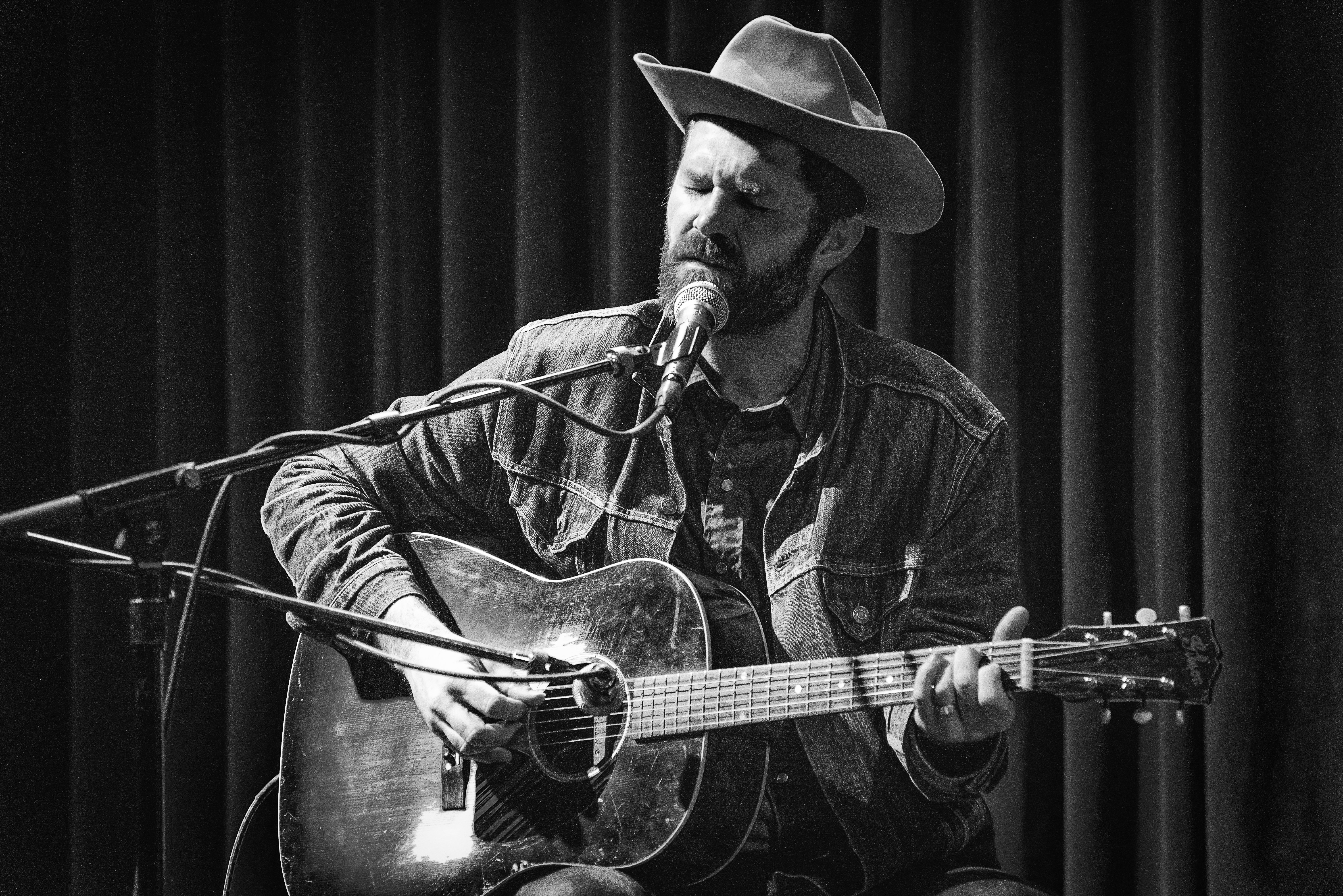 Jeffrey Foucault at World Cafe Live in 2015